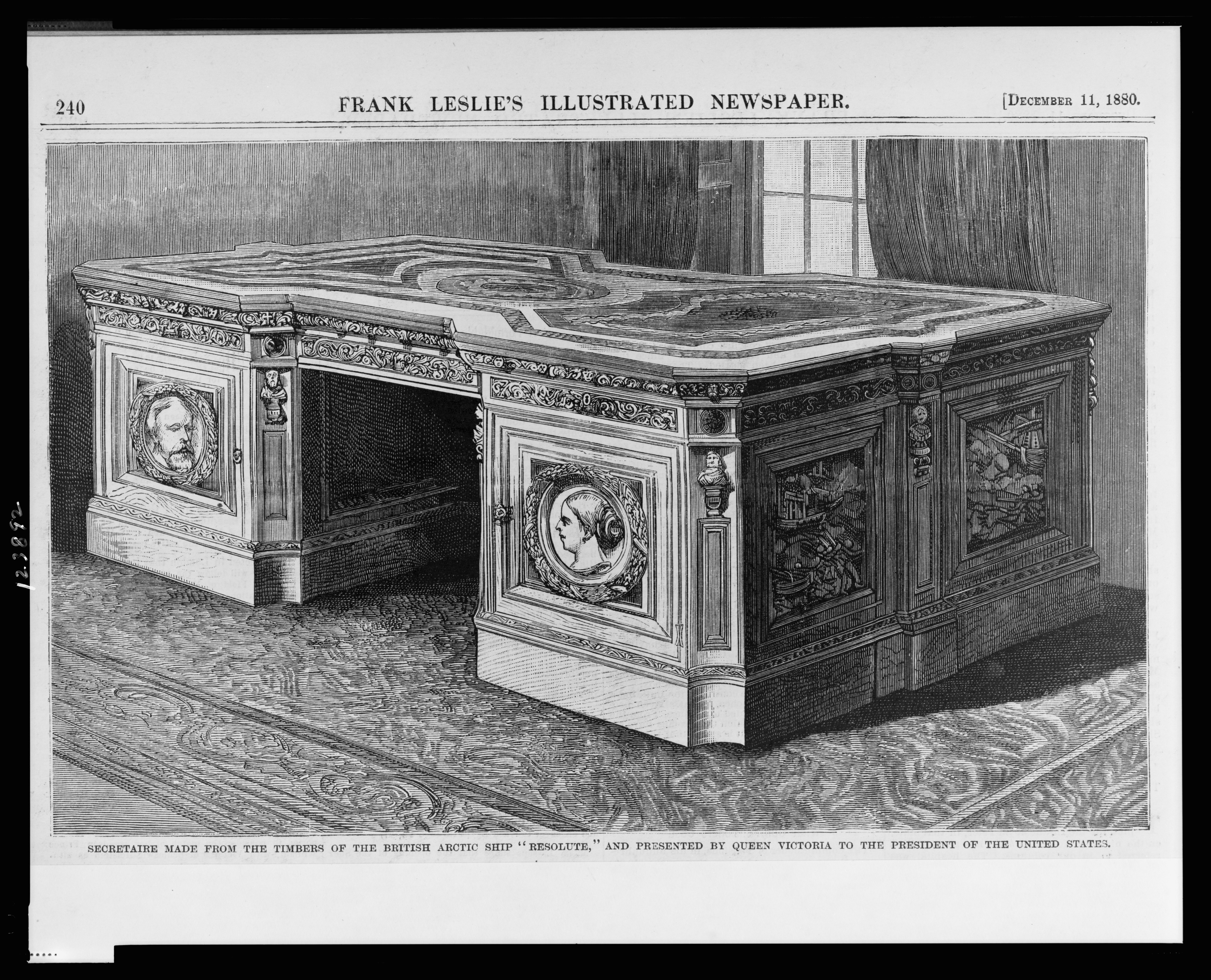 Title: Secretaire made from the timbers of the British Arctic ship "Resolute," and presented by Queen Victoria to the President of the United States Abstract/medium: 1 print : wood engraving.